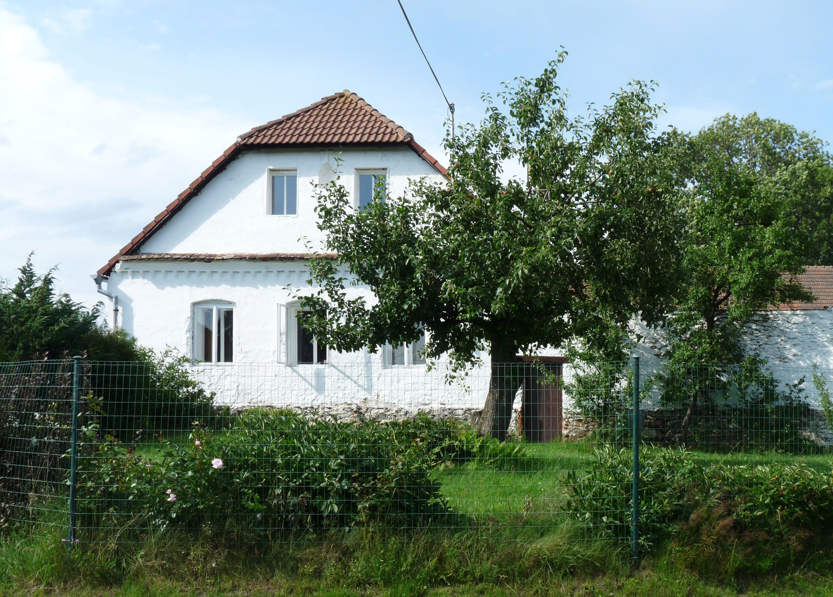 House No 4 in the village of Babčice, Tábor District, South Bohemian Region, Czech Republic.